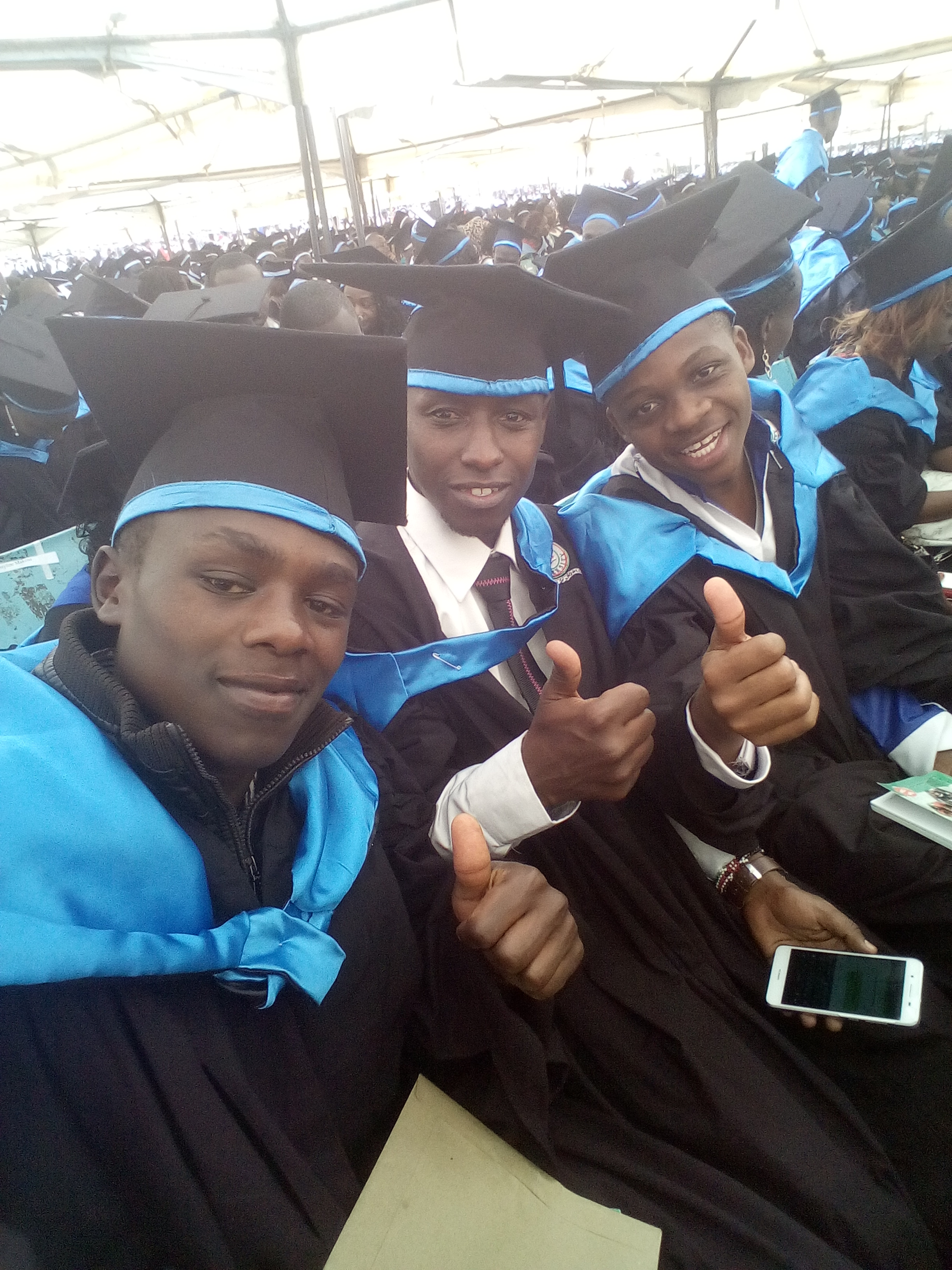 Happy graduation at Moi University, Kenya. 2016 This is an image of music and dance from Kenya